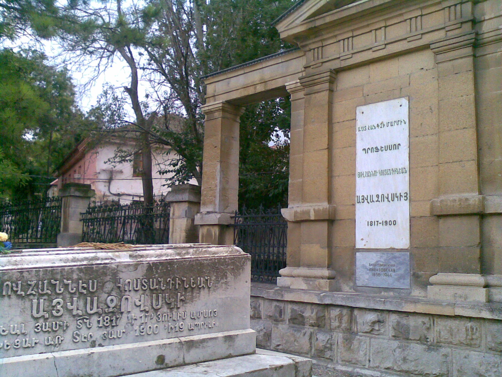 Feodosia_Aivazovsky_grave01